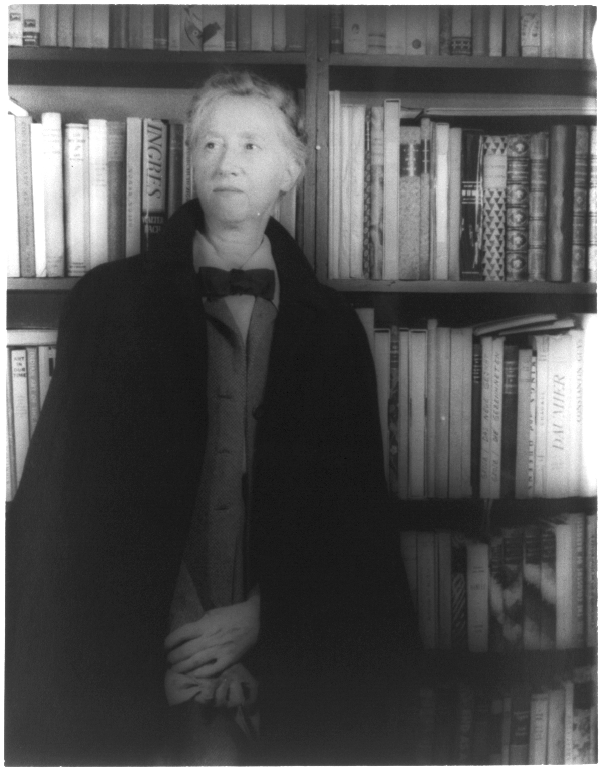 Marianne Moore, 13 November 1948